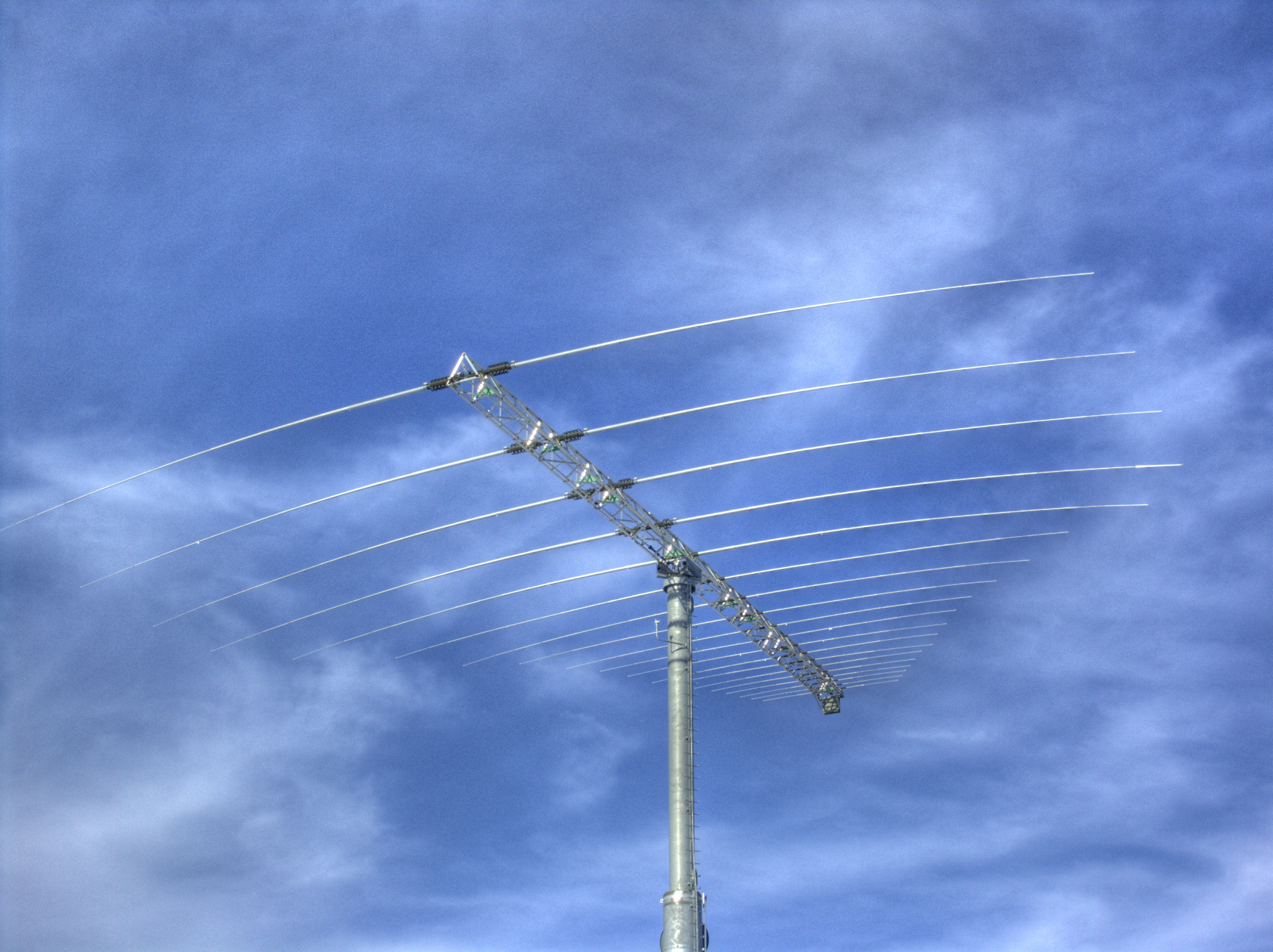 Logper Antenna in Zweisimmen, Switzerland, coordinates 592 540 / 155 790